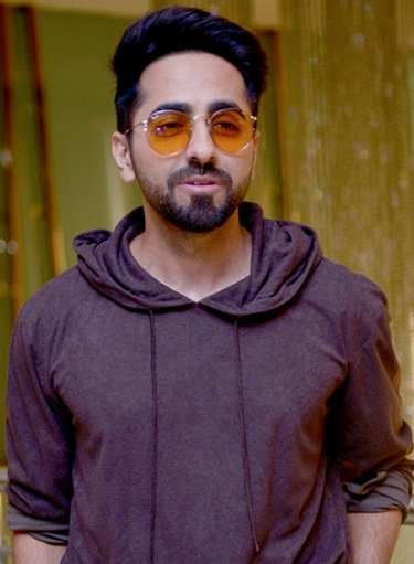 Ayushmann Khurrana promoting Andhadhun in Delhi, 2018